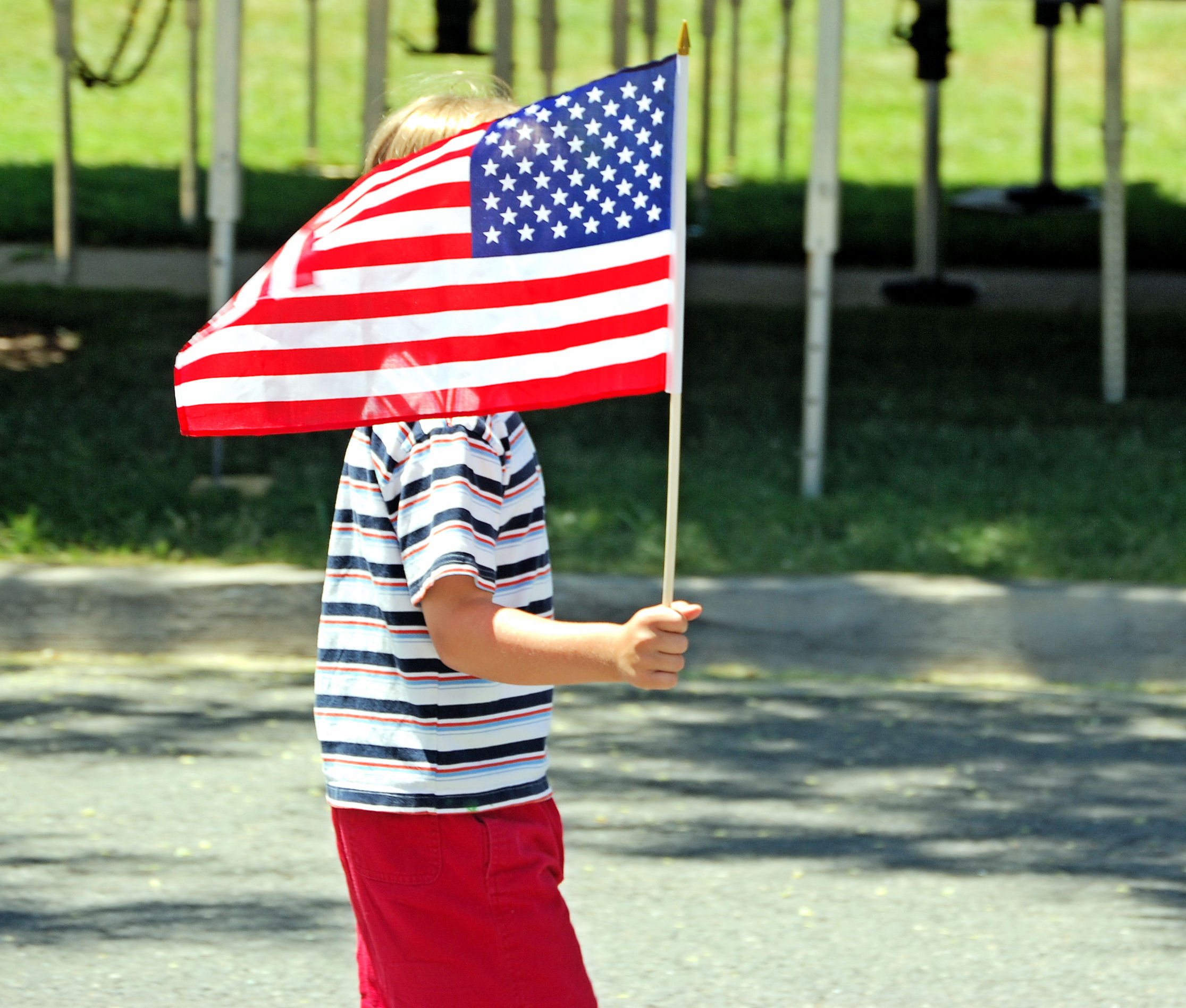 A child holds the American flag during an Independence Day celebration